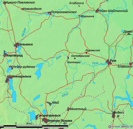 Murzinka-Aduy region in Sverdlovsk Oblast, Russia